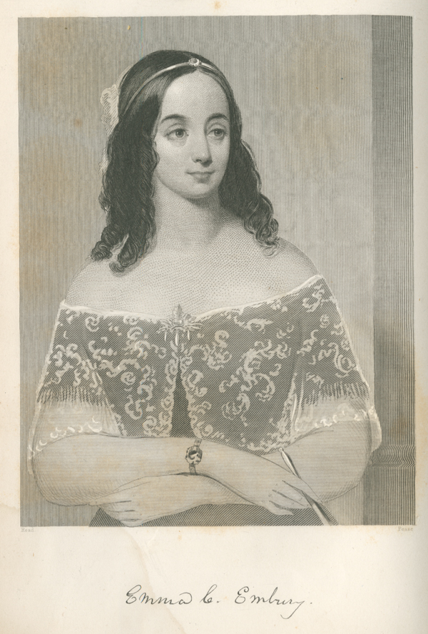 engraving of Emma Catherine Embury, (1806 – 1863) , a writer and poet.